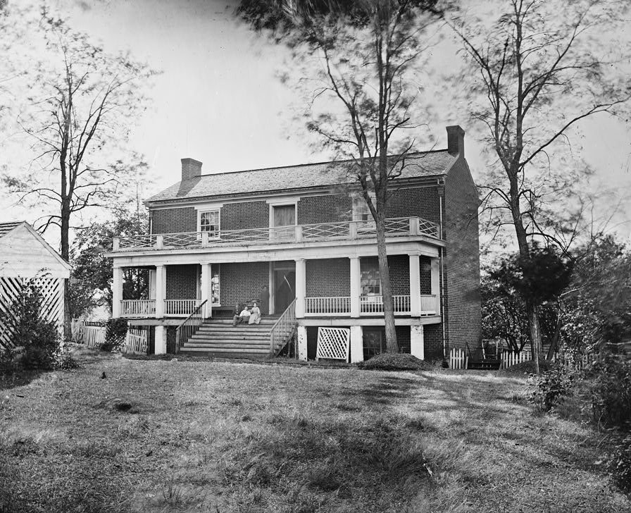 Photograph from the main eastern theater of war, the siege of Petersburg, June 1864-April 1865. [crop around the edges of above public domain photograph]